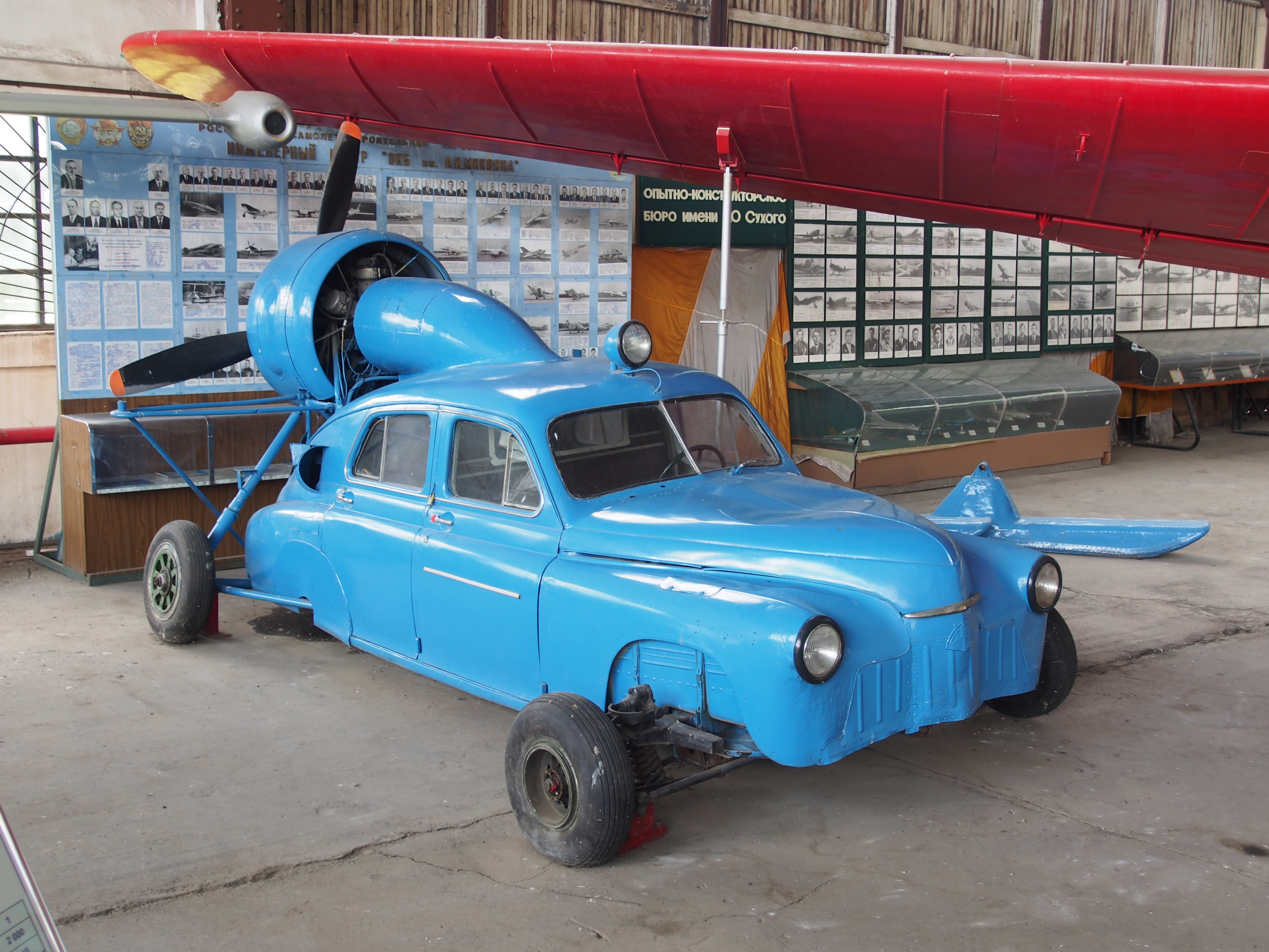 Photographed at the Central Air Force Museum, Monimo, Russia.